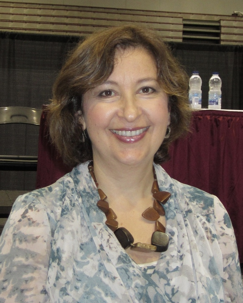 Firoozeh Dumas in grad day celebration at McMaster University, September 05, 2012.